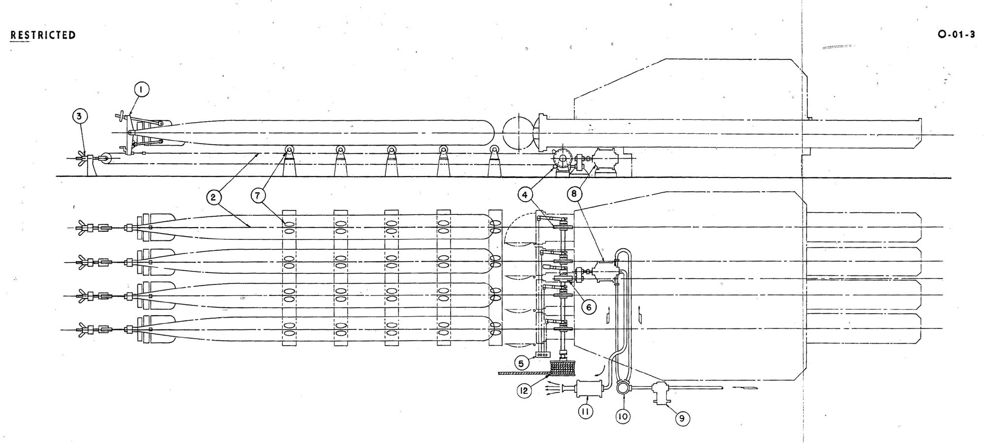 Schema of quick reload system for the IJN's quadruple torpedo tube mount. Legend: 1 - special torpedo attachment connected to the loading cable 2 - loading cable 3 - idling pulley 4 - motor pulley 5 - clutch control panel 6 - reduction gear 7 - roller path 8 - 10-hp compressed-air motor 9 - ??? 10 - ??? 11 - ??? 12 - hand-loading drum